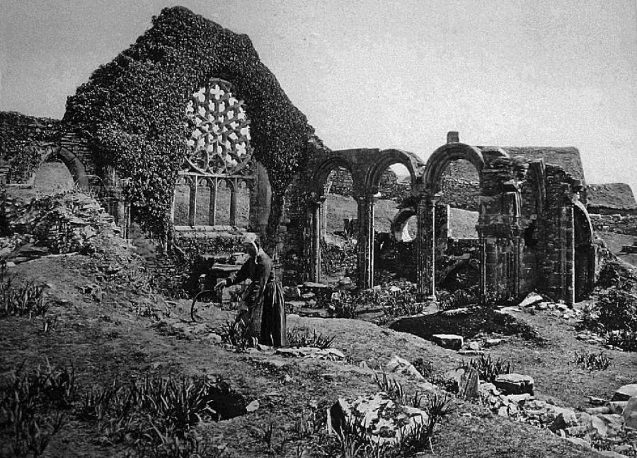 Chapelle de Languidou avant sa restauration